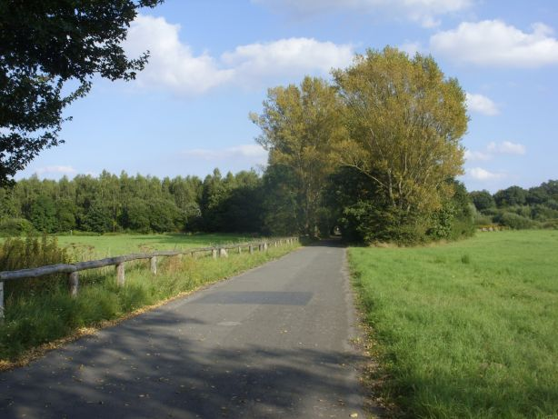 Nature reserve Riddagshausen